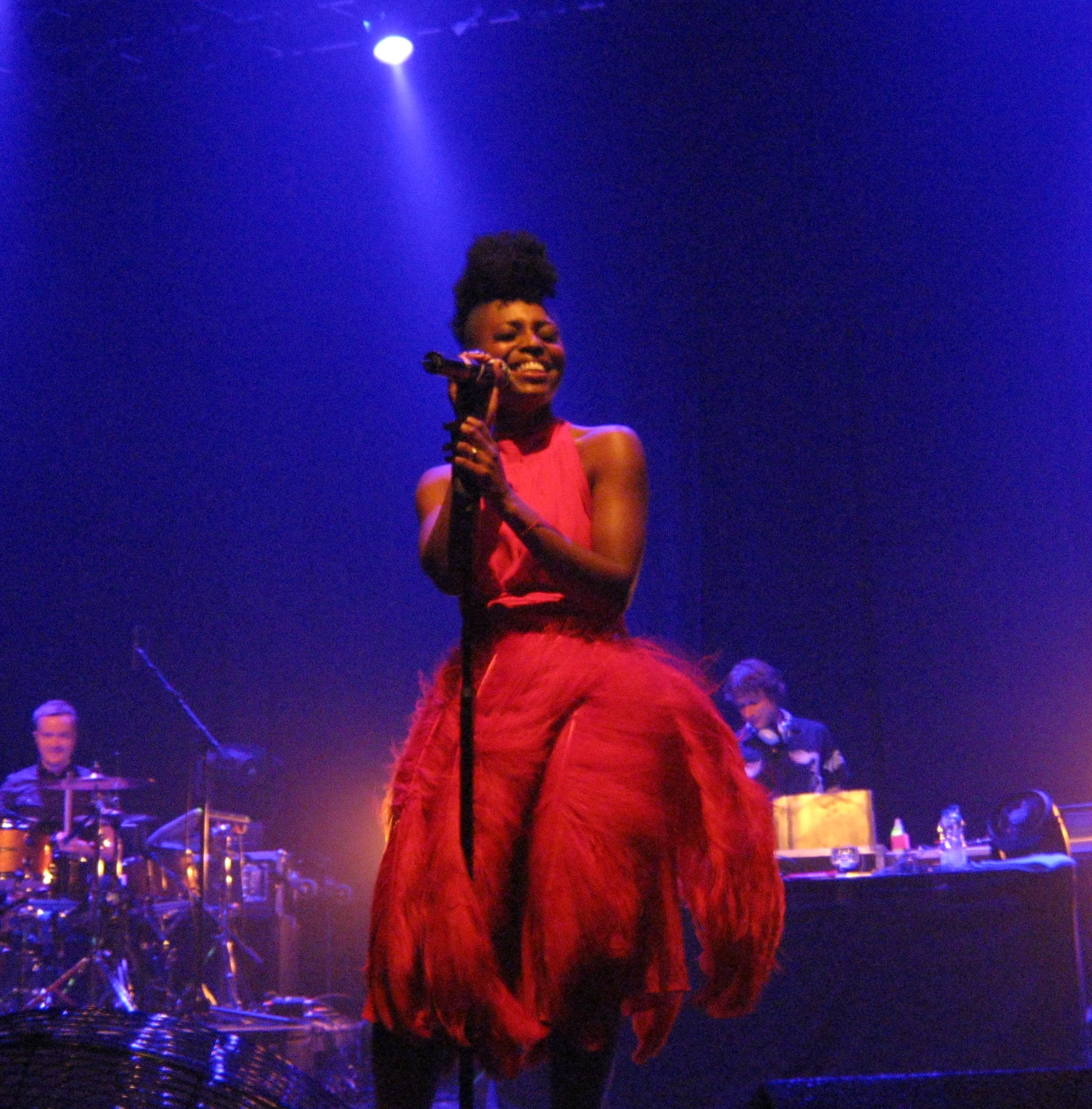 Morcheeba in concert 2011